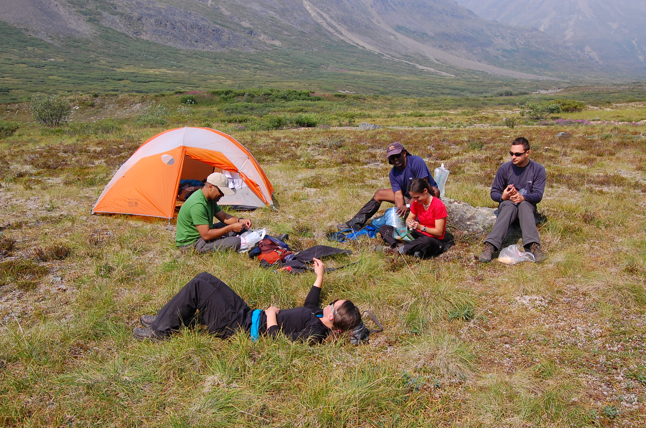 "The first day camp. Everyone is still clean and full."